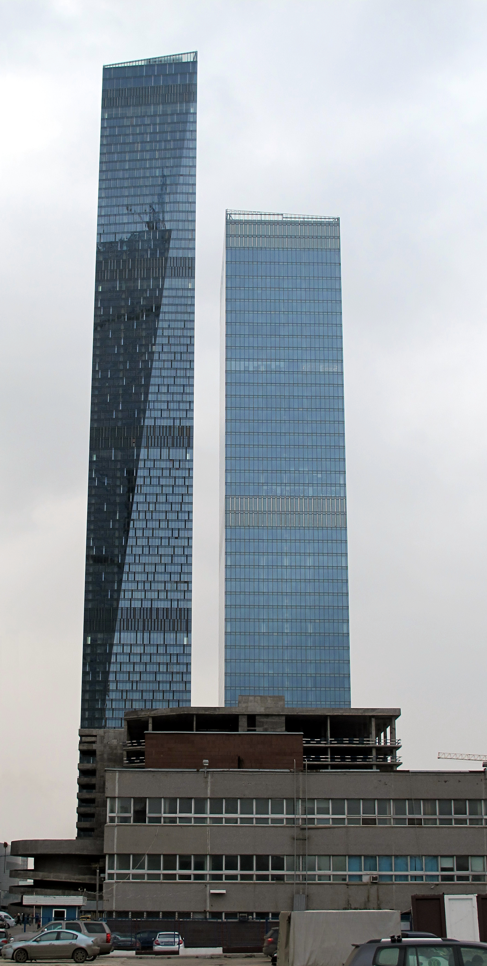 Wikitrip to Moscow International Business Center (MIBC; Moscow-City) 2016-03-22